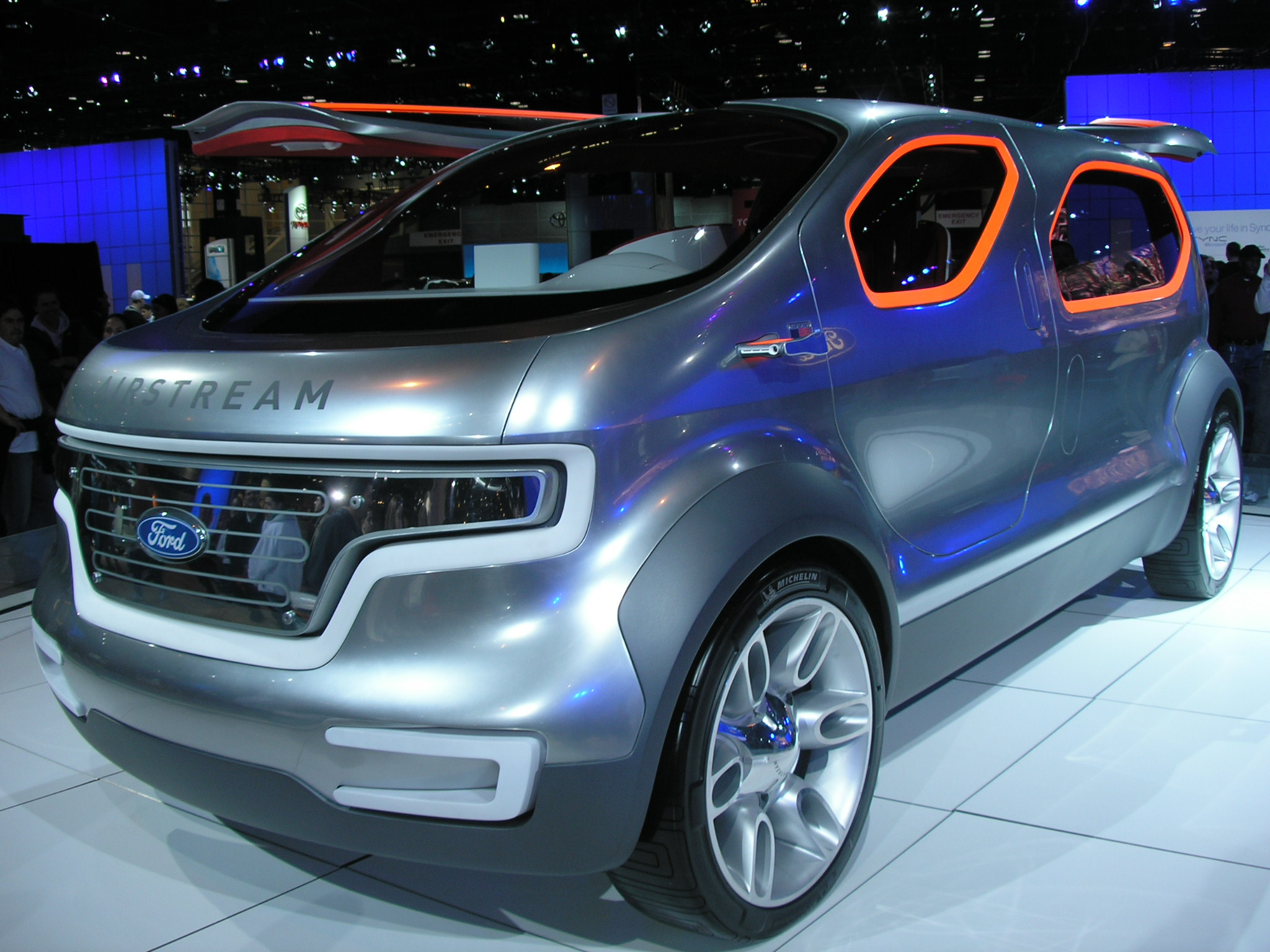 The Ford "Airstream" Concept at theChicago Auto Show, 2007, held in the McCormick Place convention center.